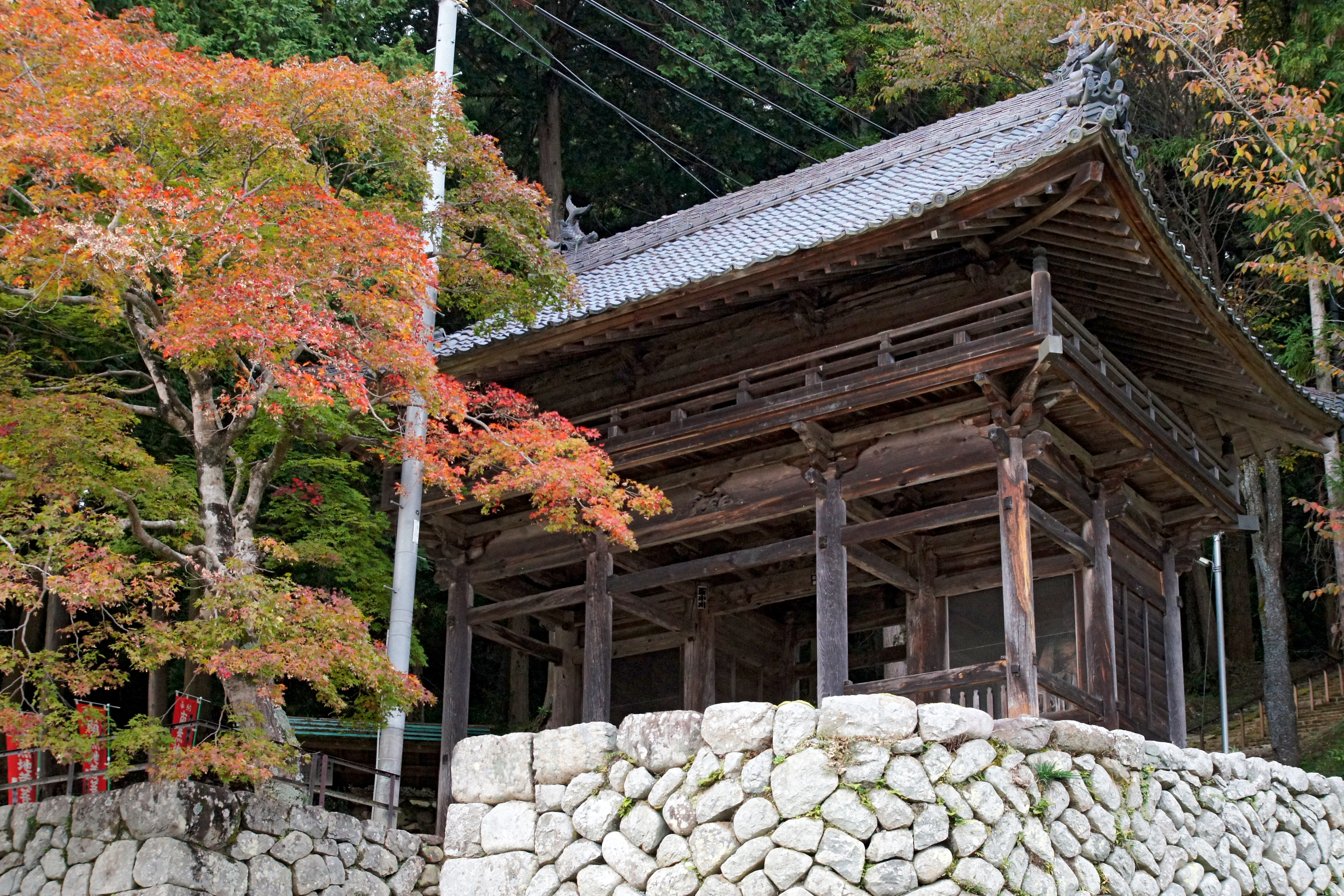 Horaku-ji in Kamikawa, Hyogo prefecture, Japan